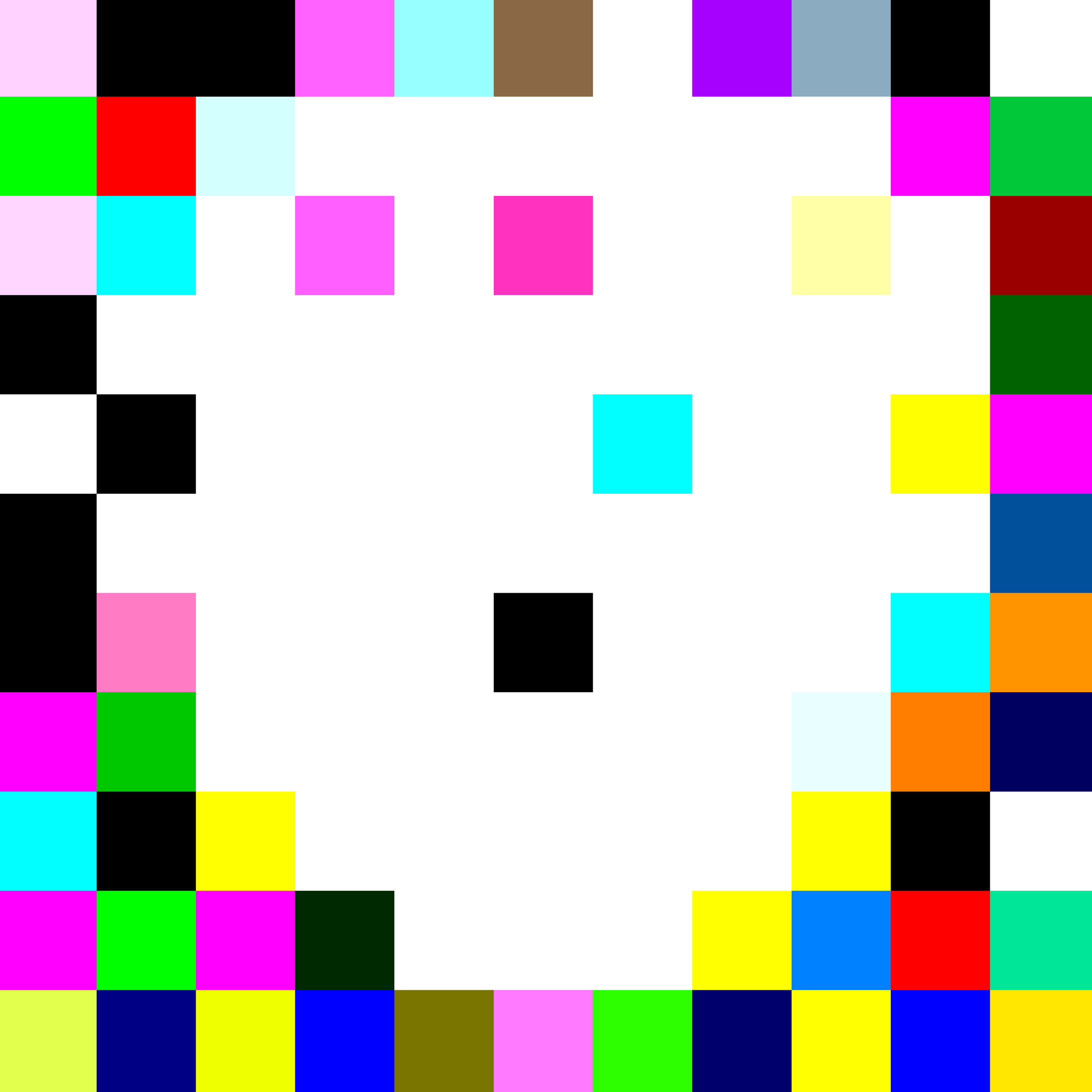 Marko Vuokola, Venus (sharpen), 2012, 180x180cm, pigment print diasec mounted. The work displays the central pixels of a photograph of the planet Venus, enlarged. The work also exists in smaller formats.